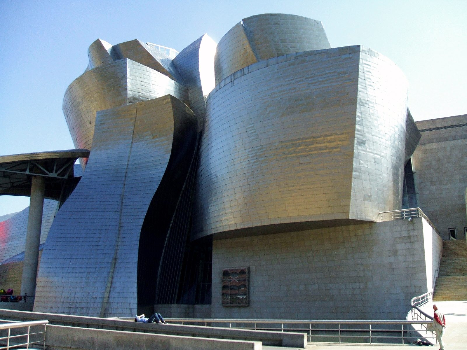 Museo Guggenheim Bilbao